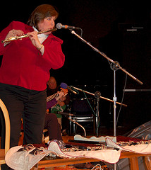 Flutist and whistle player Joanie Madden plays in a rare non-Cherish the Ladies performance. This photo was taken in April 2006 at the Coatesville Traditional Irish Music Series. It was originally published on